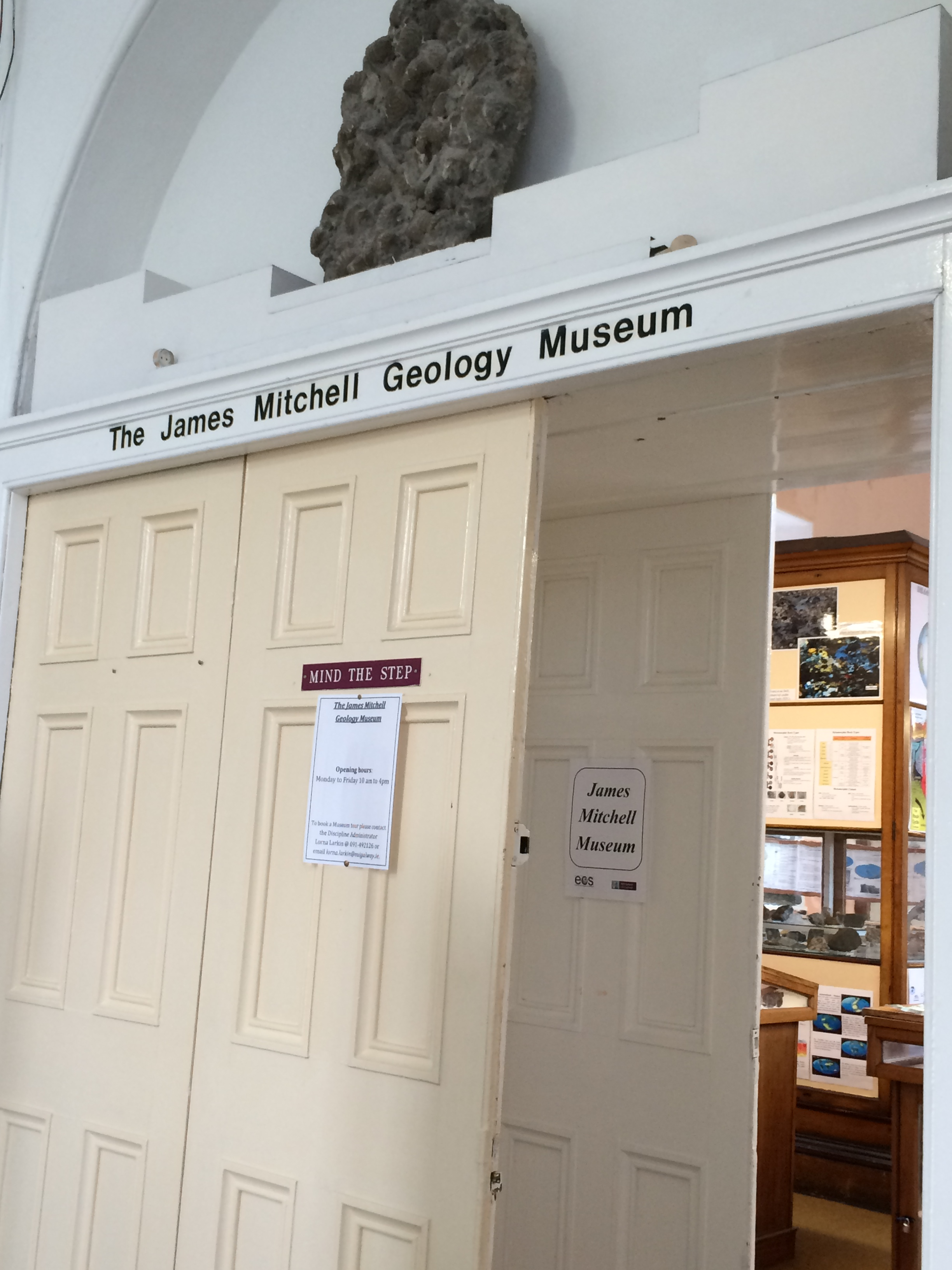 The entrance to the James Mitchel Museum at NUI Galway